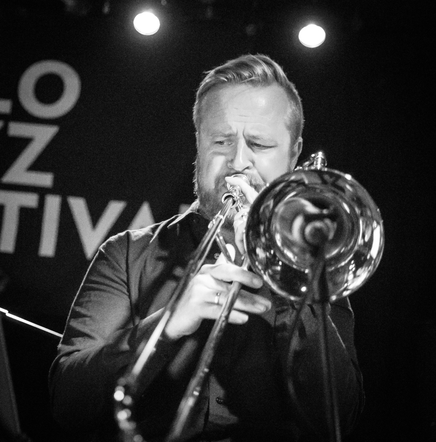 Even Kruse Skatrud with Hovedøen Social Club at Herr Nilsen. The concert was part of Oslo Jazzfestival and took place on 19. August 2017 in Oslo. Lineup: Sergio Gonzalez (vocal), Sverre Indris Joner (piano), Even Kruse Skatrud (trombone), Alejandro Gispert Navarro (double bass), Eduardo Cedeño (conga) and Marius Bastiansen (timbales).